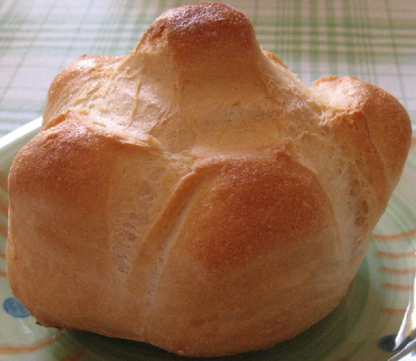 rosetta, michetta, italy, italian, bread, pane, roma